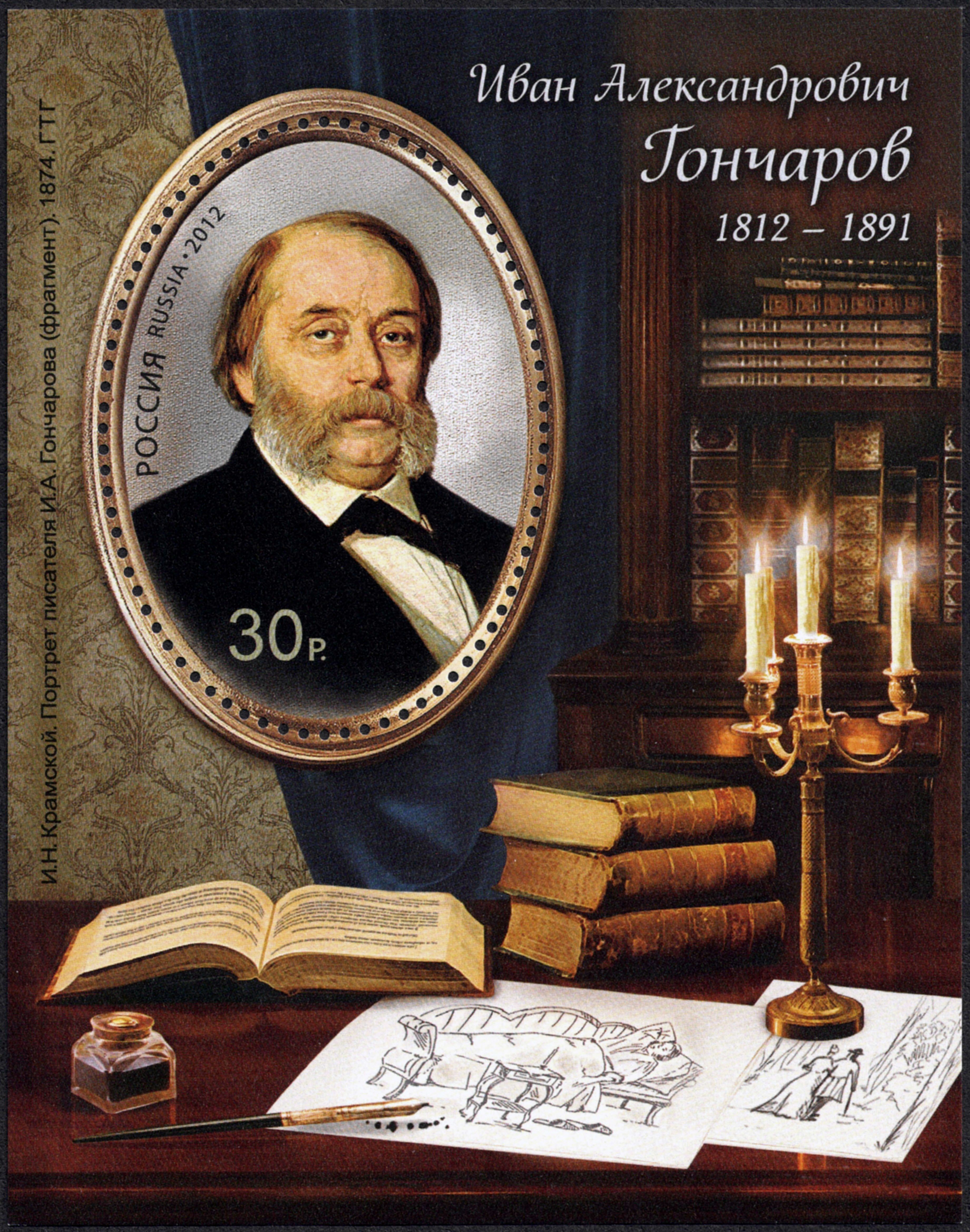 200th birth anniversary of the Russian writer Ivan Goncharov (1812–1891).The souvenir sheet of Russia, 1 stamp×30.00 Rubles, 4 June 2012, PTC Marka Catalogue No 1594, Michel No 1826 (Block164). Coated paper. Offset printing. Perforation: oval 12. The size of the souvenir sheet: 77×97 mm. The size of the stamp: 35.5×49.5 mm. Print run: 90,000.Portrait of the Writer Ivan Goncharov by Ivan Kramskoi. 1874. The margins of the souvenir sheet: the fragment of the interior of Ivan Goncharov’s study.